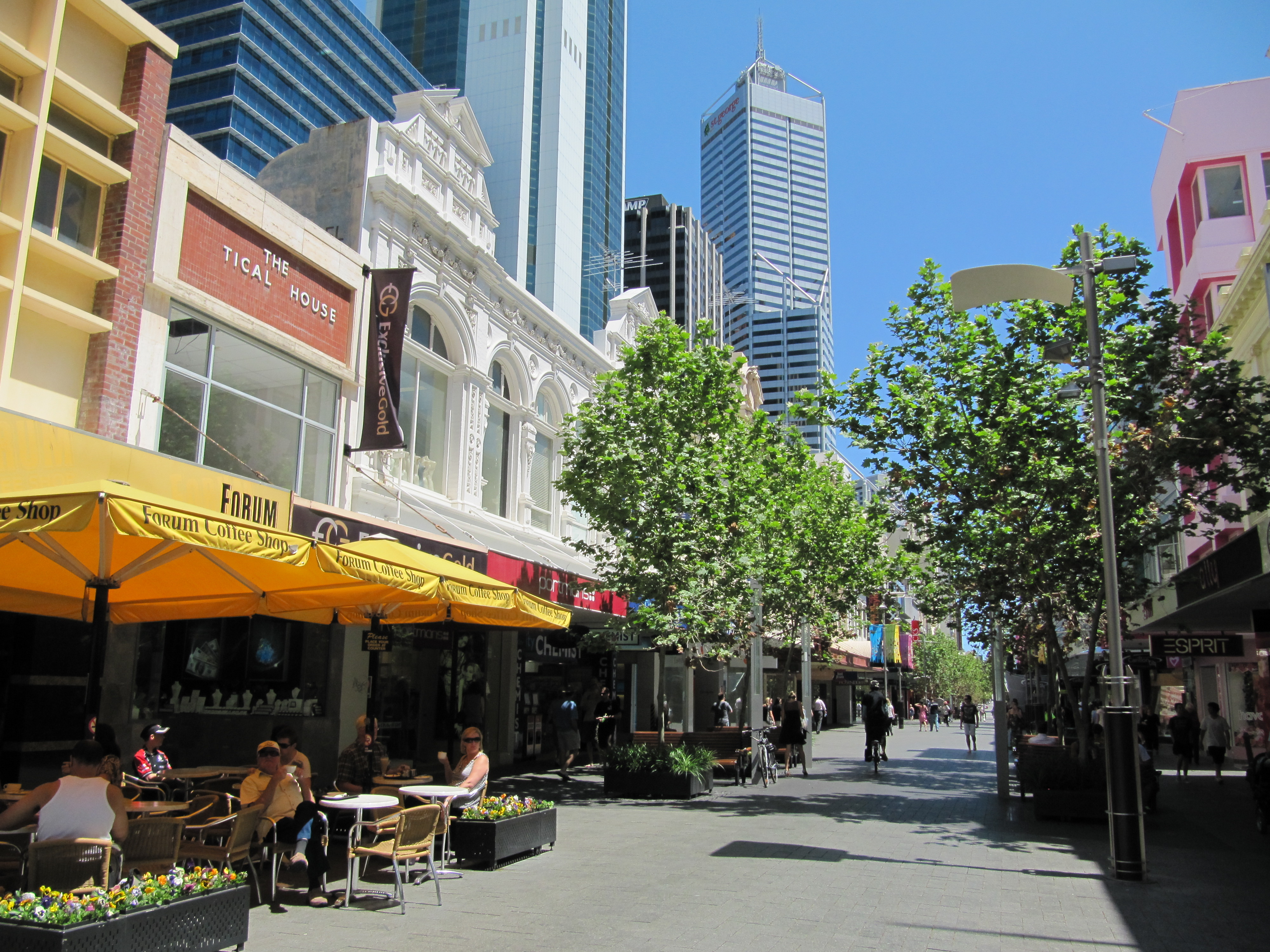 Pedestrian steet downtown Perth, Western Australia